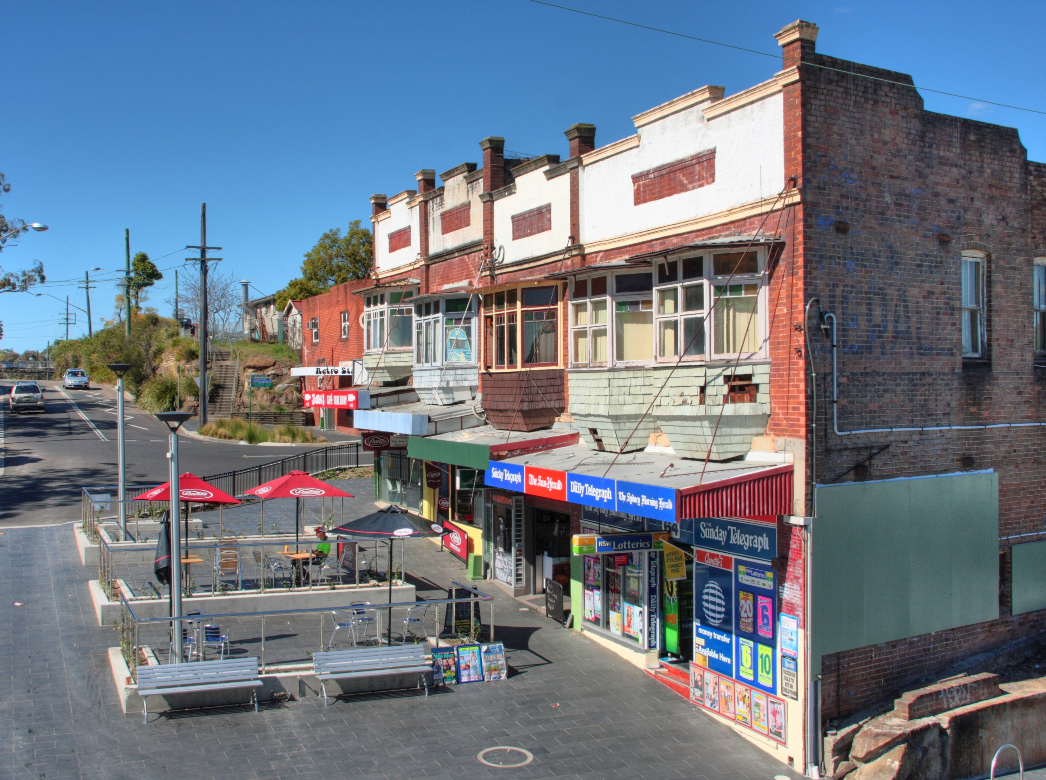 Meadowbank, New South Wales. The shops near the railway station